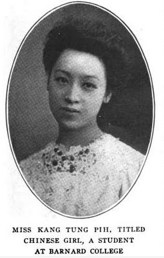 Kang Tongbi, from a 1908 magazine.